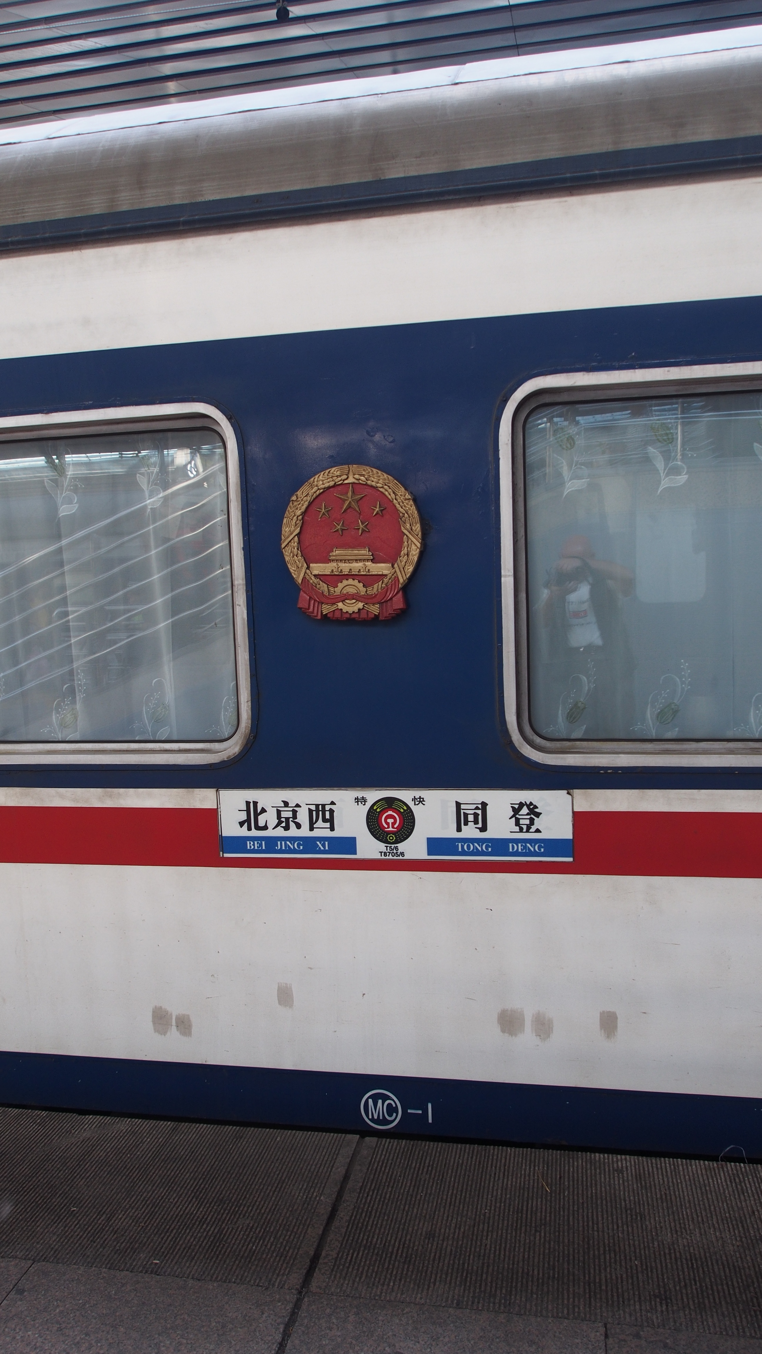 Boarding the train for Hanoi